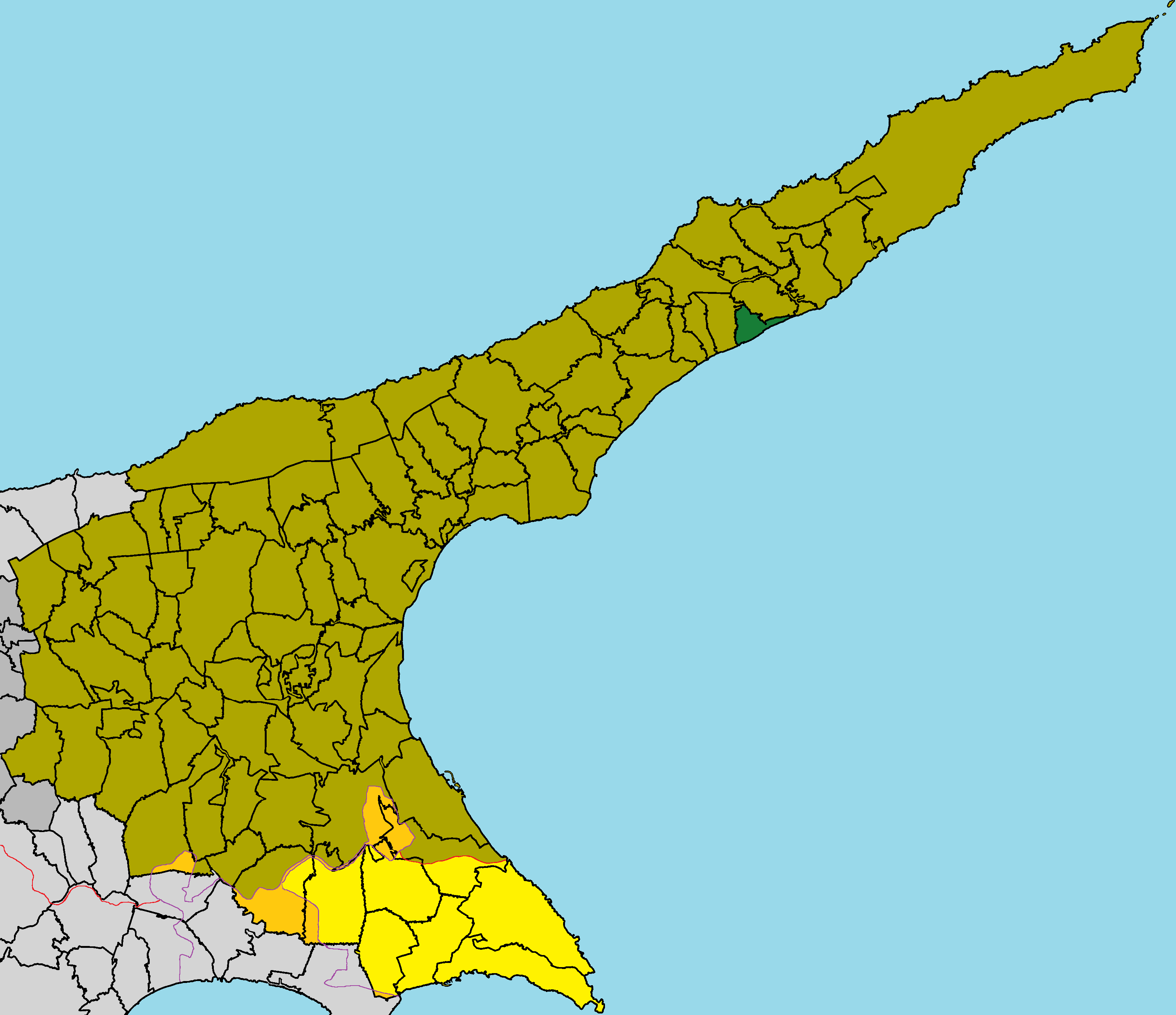 Neta in Famagusta District (de jure).